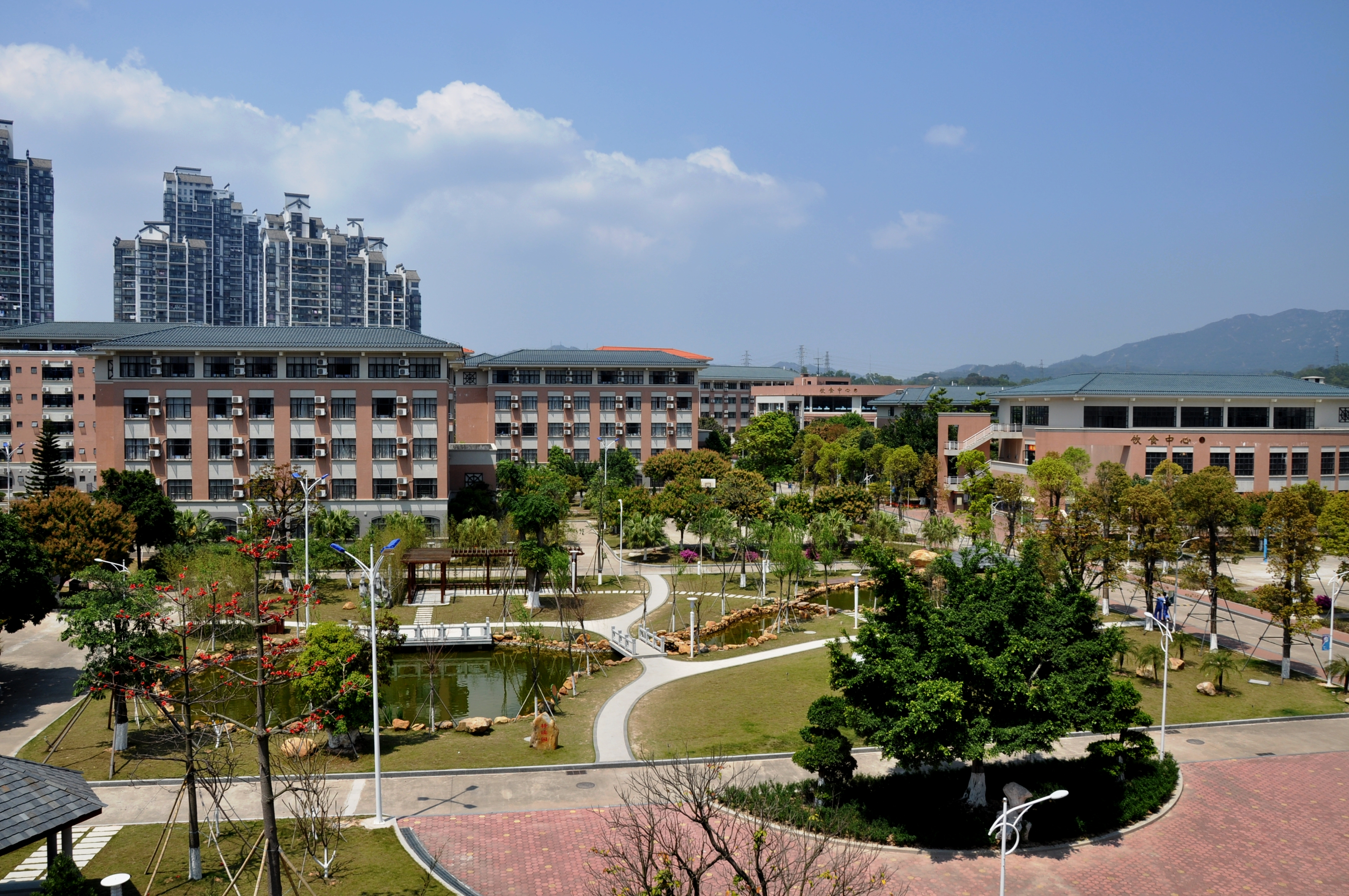 A residential area in Zhuhai